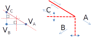 Triple junction theory